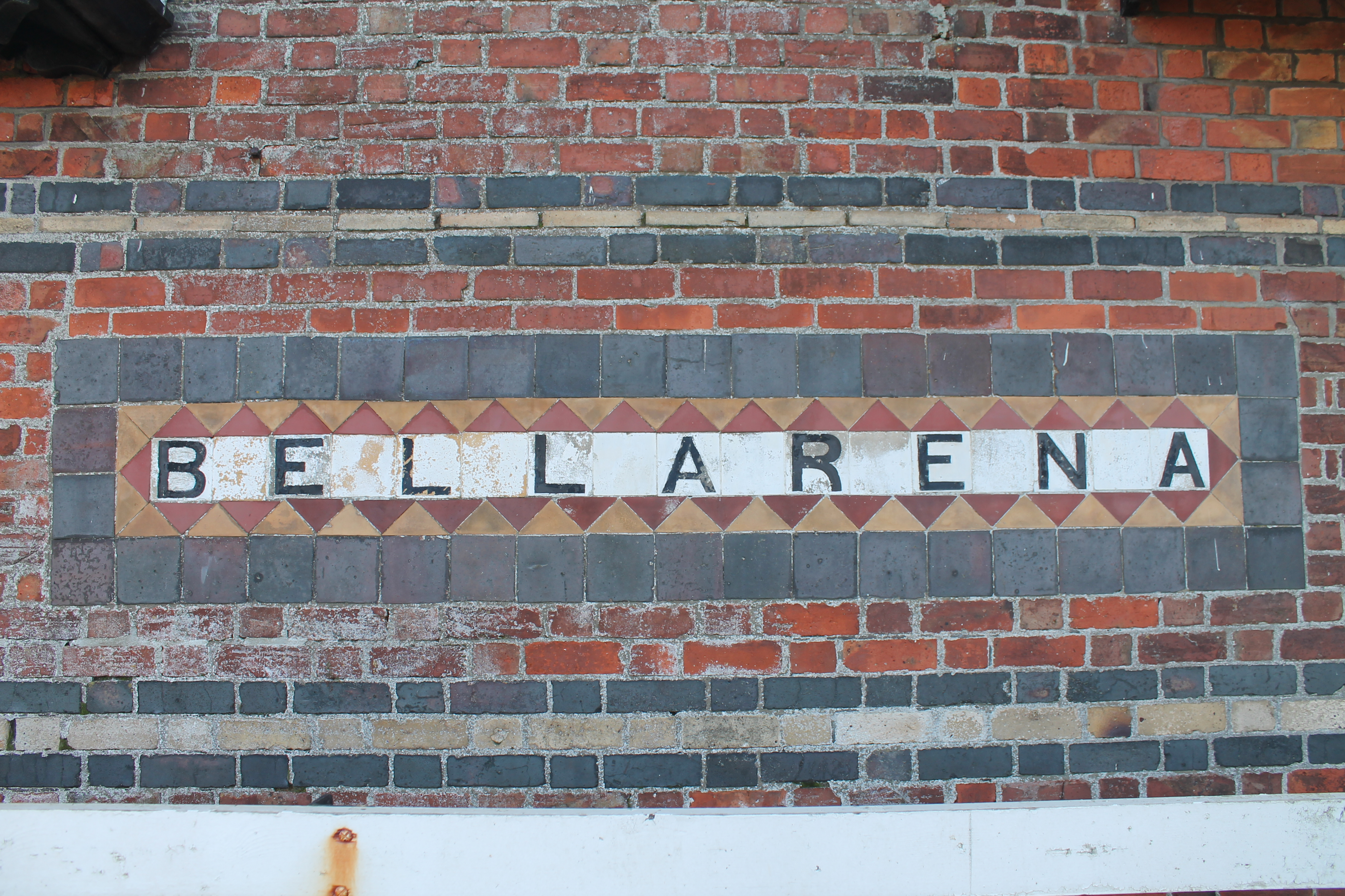 A pleasant feature of Bellarena railway station; the name is spelled out in tiles on the building.